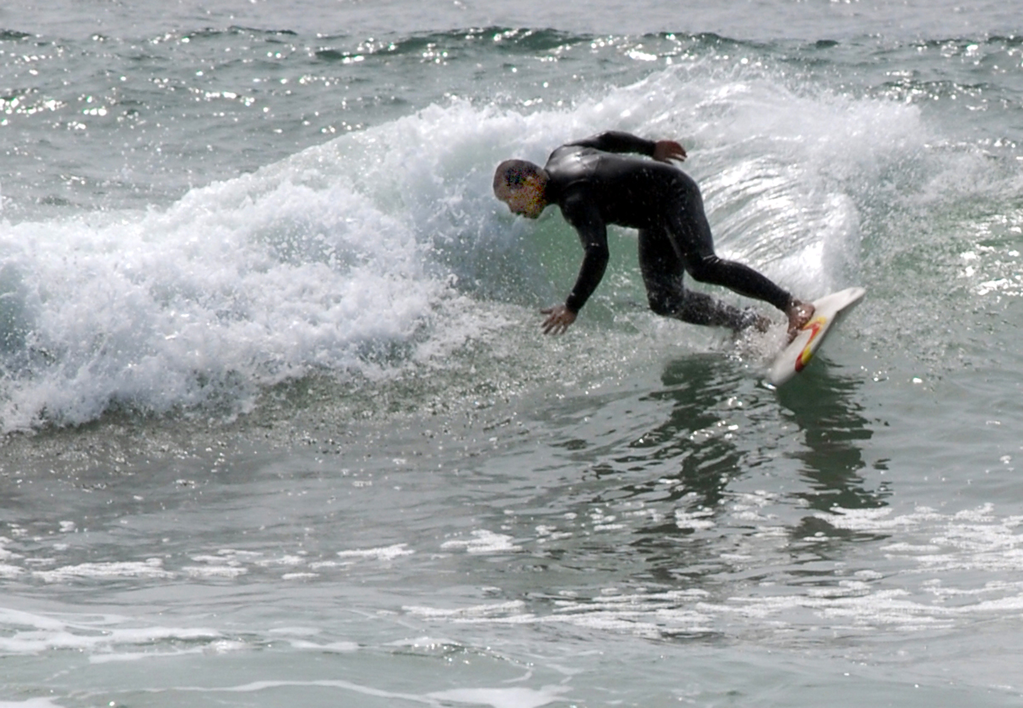 A surfer braves the frigid waters off one of Vandenberg's beaches Friday. The Central Coast is said by many to have some of the best surfing locations in California.